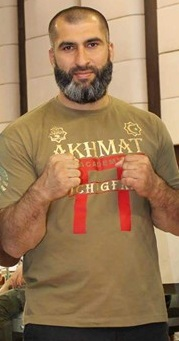 Kyokushin karateka Lechi Kurbanov at European Championships in Varna 2016